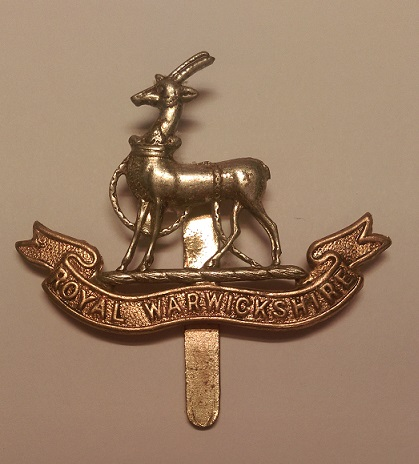 Photo of Royal Warwickshire Regiment Cap Badge from personal collection